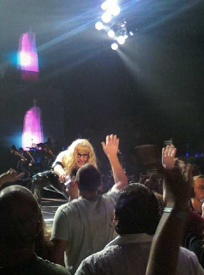 American singer-songwriter, Madonna, performing "Give It 2 Me" at the Philips Arena in Atlanta, GA USA during her 2008 "Sticky & Sweet Tour"